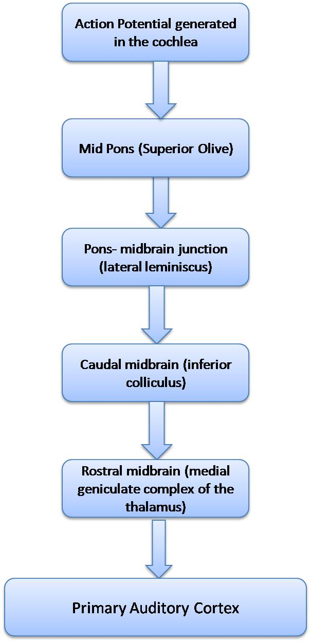 Transmission of Nerve Impulse from the cochlea